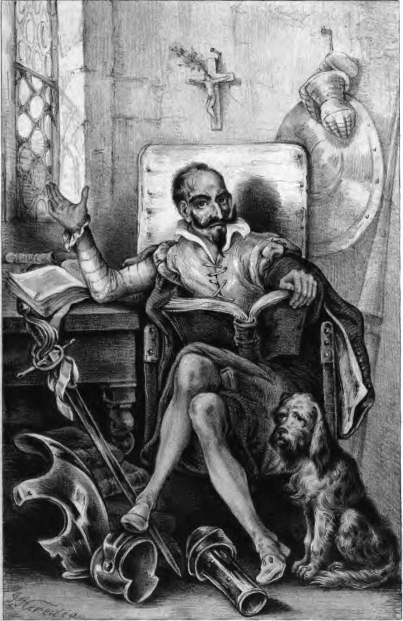 pg 12 of El ingenioso hidalgo Don Quijote del Mancha.